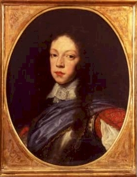 Alfonso IV d'Este, Duke of Modena